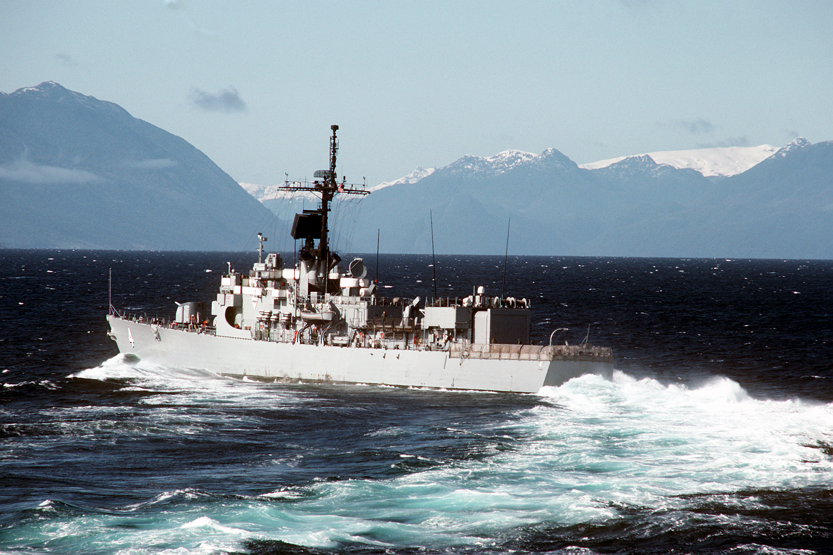 A port view of the guided missile frigate USS TALBOT (FFG-4) executing a high speed turn during the multinational naval exercise Unitas XXV.